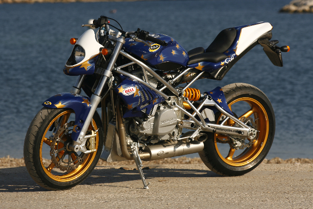 Cafe Racers & Superbikes Vun, for the french official dealer